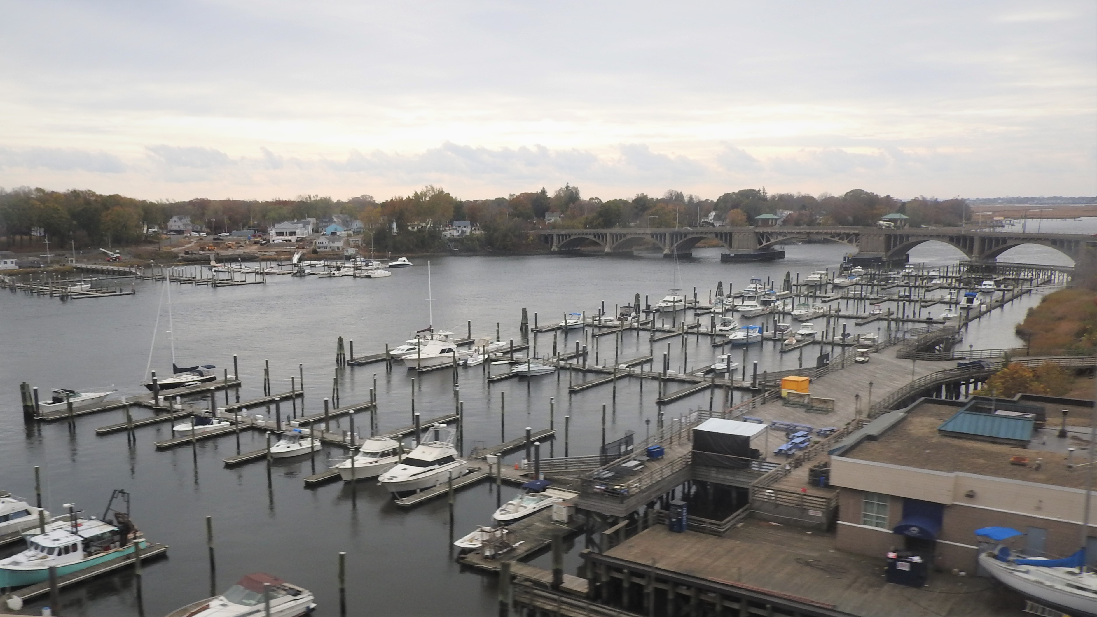 Looking southeast from an eastbound bus on I-95 on a cloudy day.